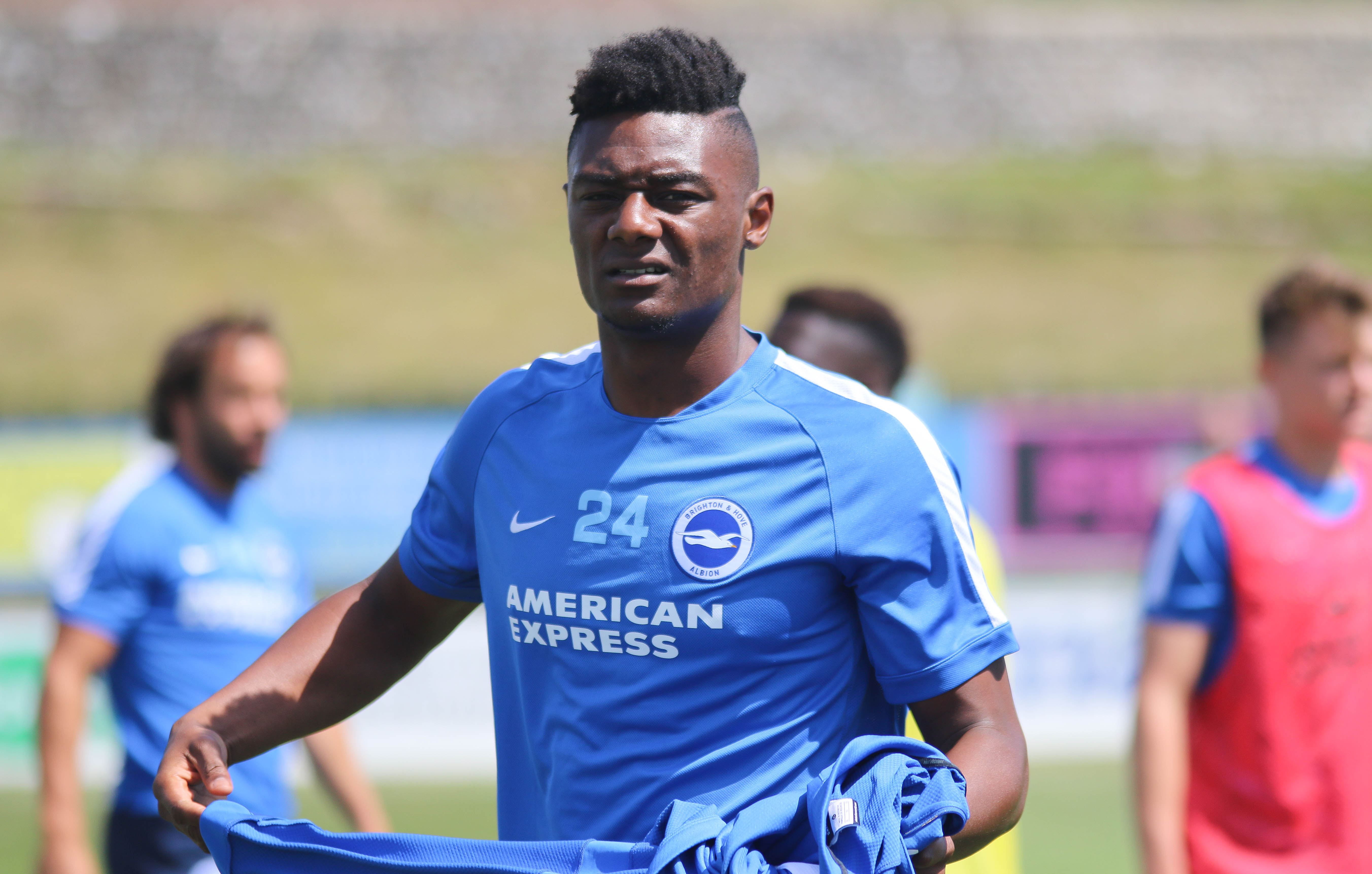 Lewes 0 BHA 0 18 July 2015-209.jpg